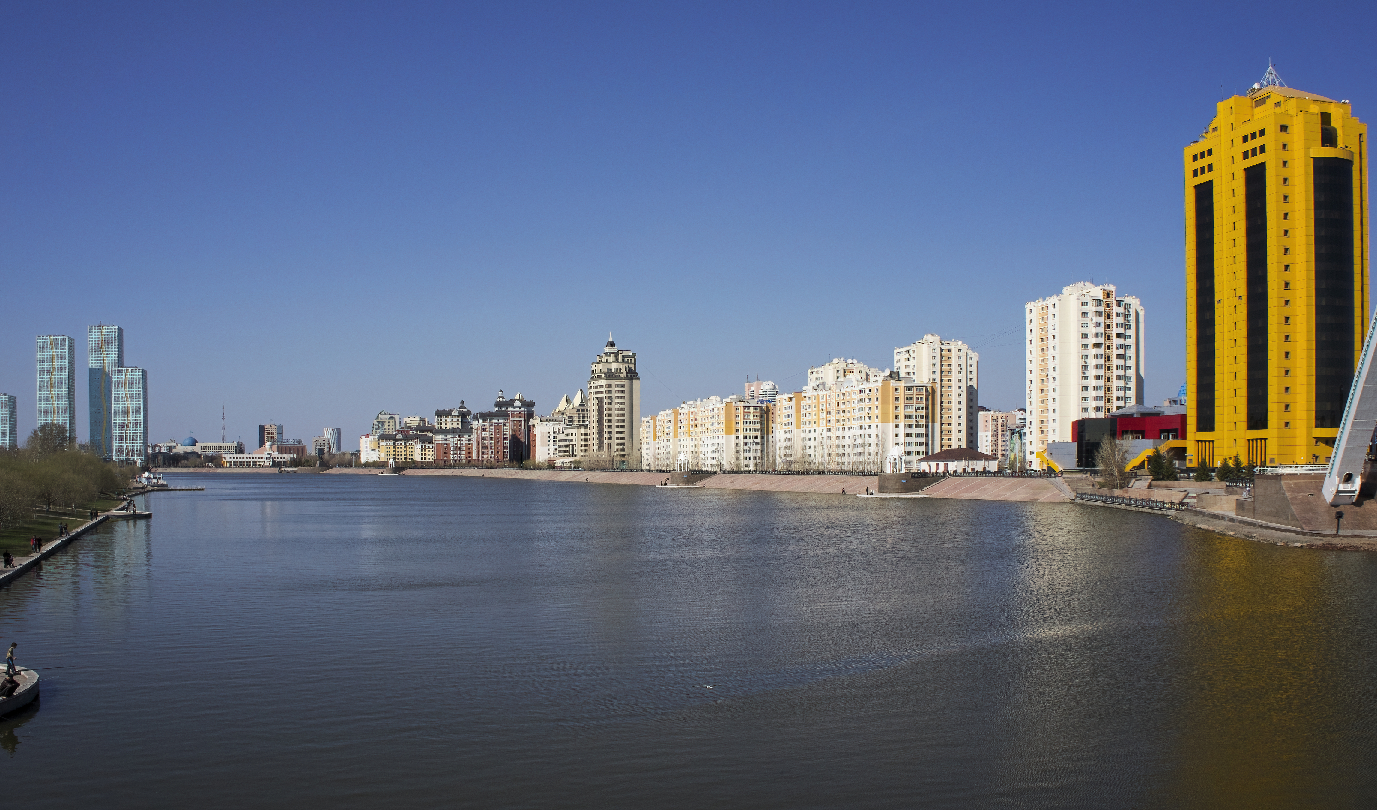 Ishim river in Nur-Sultan, Kazakhstan.